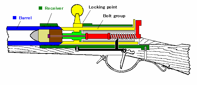 Internal structural drawing of Dreyse M1841.